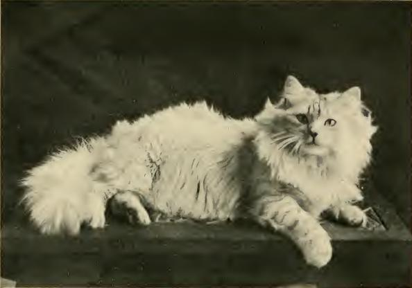 "Mrs. F. Champion's American bred shaded silver male. Sire, Argent Glorious; dam, Argent Fancy. Glorioso is a novice of great promise and should carry- off many honours when shown. He is another silver, bred by the Argent Kennels, Staten Island, N. Y."